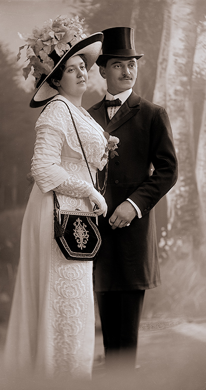 Photographer Josef Jindřich Šechtl and Anna Stocká (Šechtlová), wedding photo, 1911 author: Josef Jindřich Šechtl